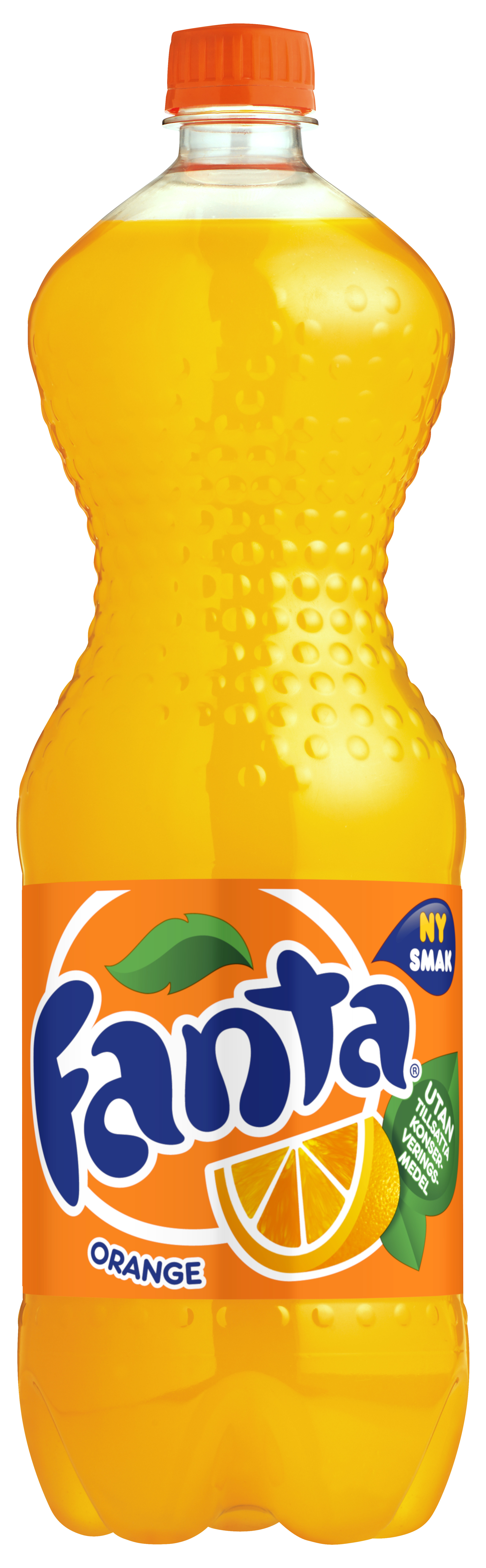 Fanta-bottle, 1.5l